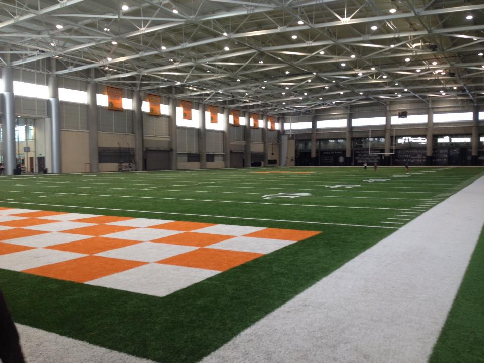 The indoor practice field.